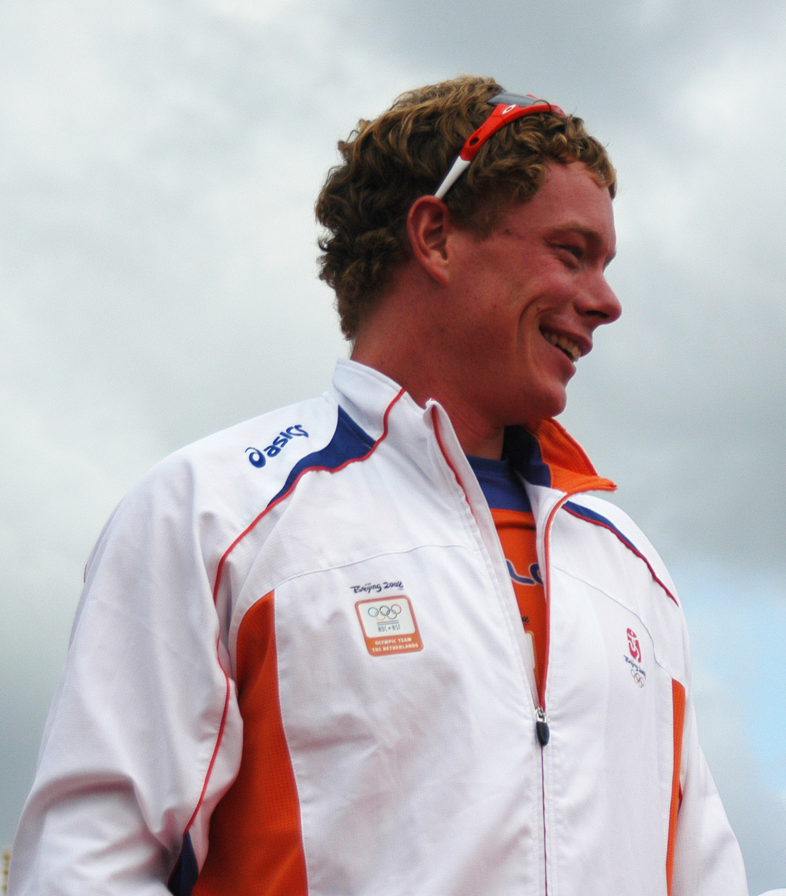 Jan-Willem Gabriëls at the Olympic welcome in the Olympic Stadium in Amsterdam, the Netherlands